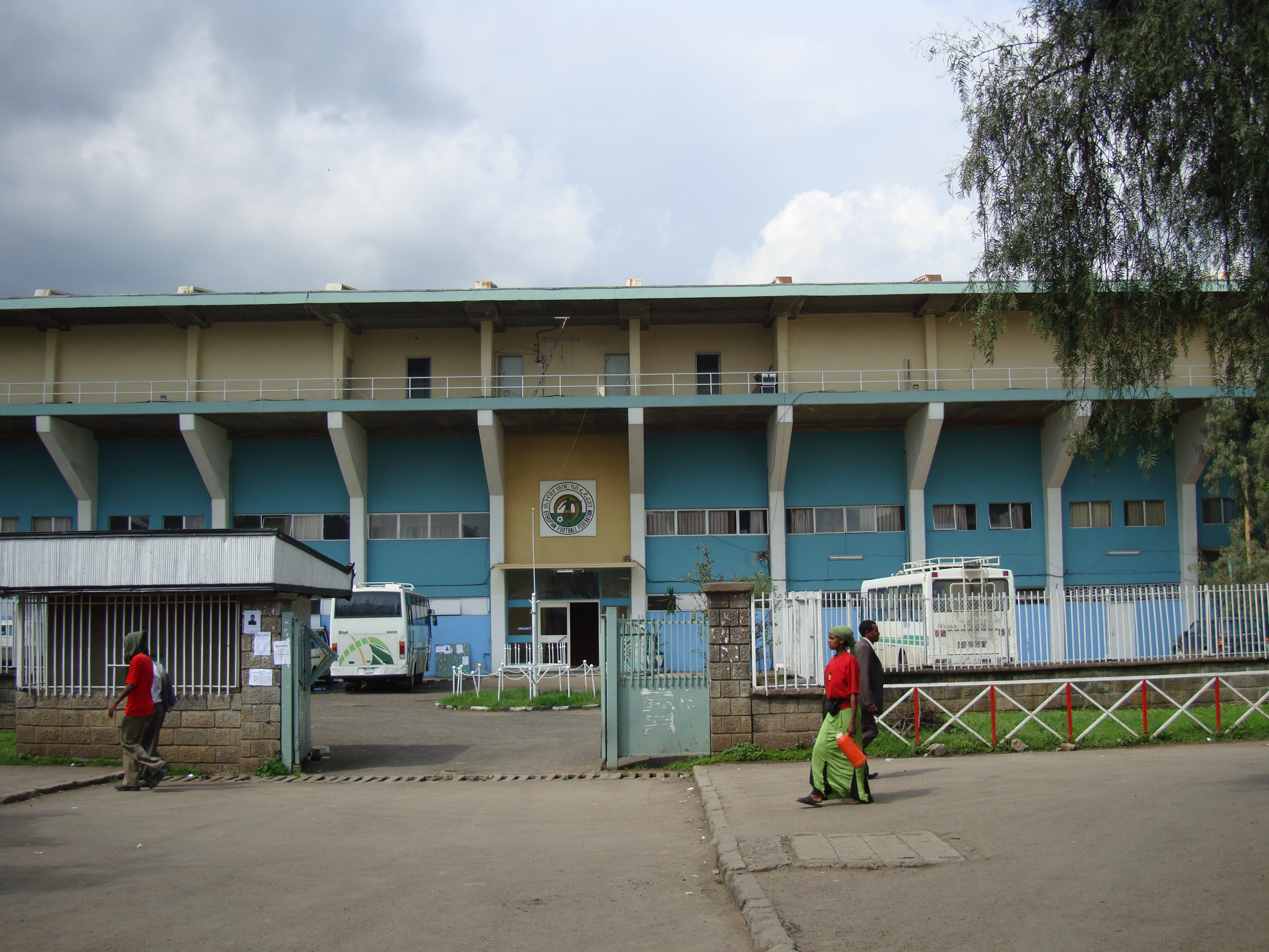 Addis Abeba Stadium, Ethiopia